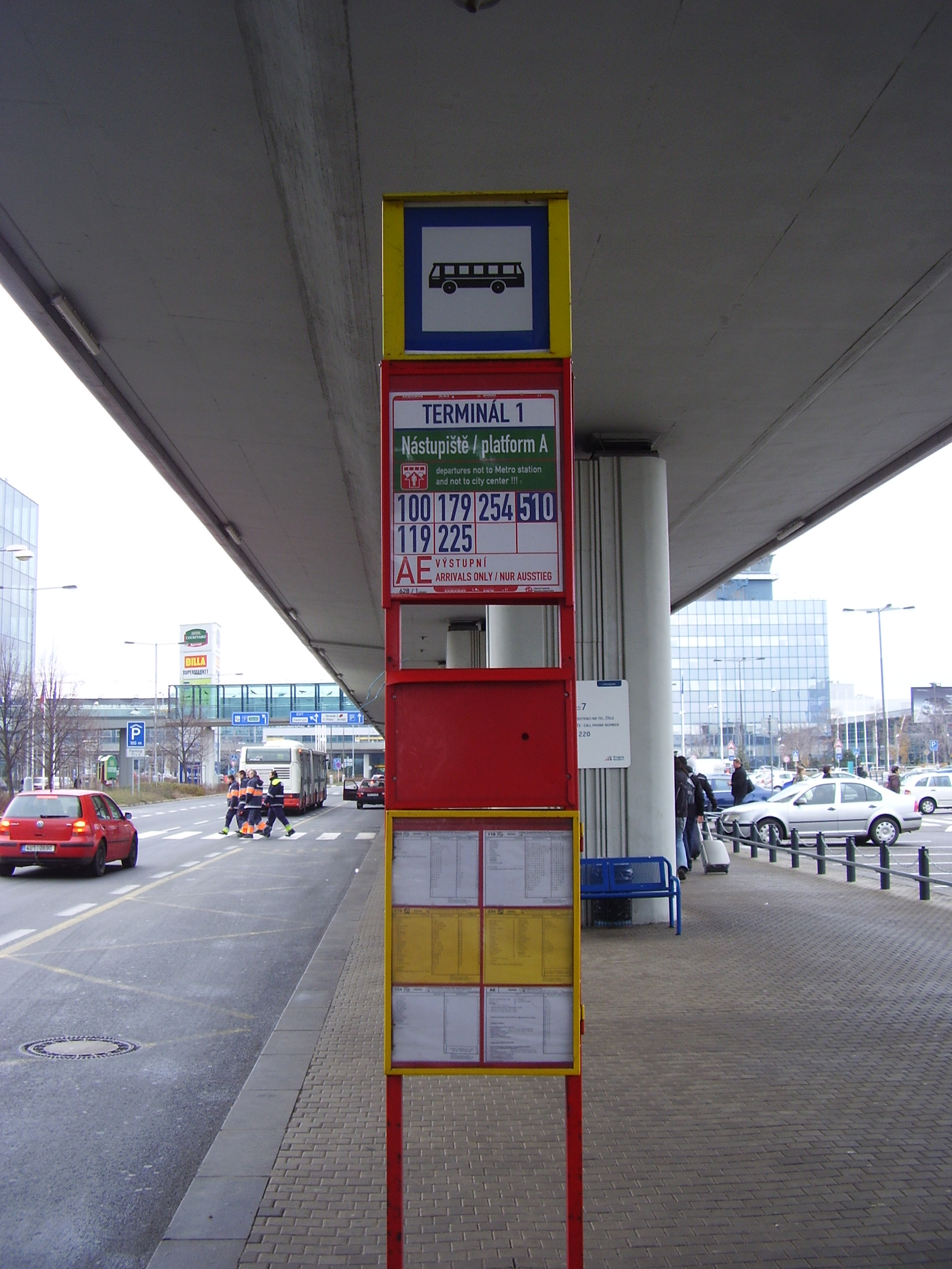 Bus arrival in front of terminal 1, Airport Prague Ruzyně